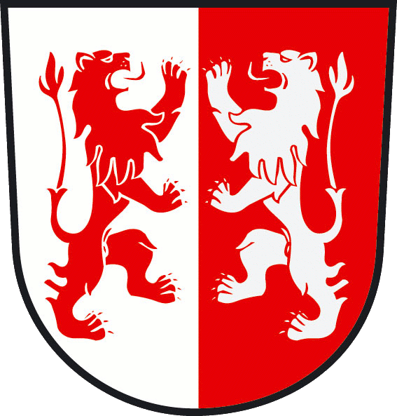 Coat of arms of Visp, Valais, Switzerland